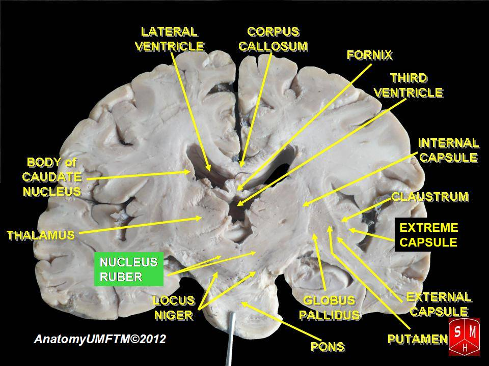 Anatomical dissection